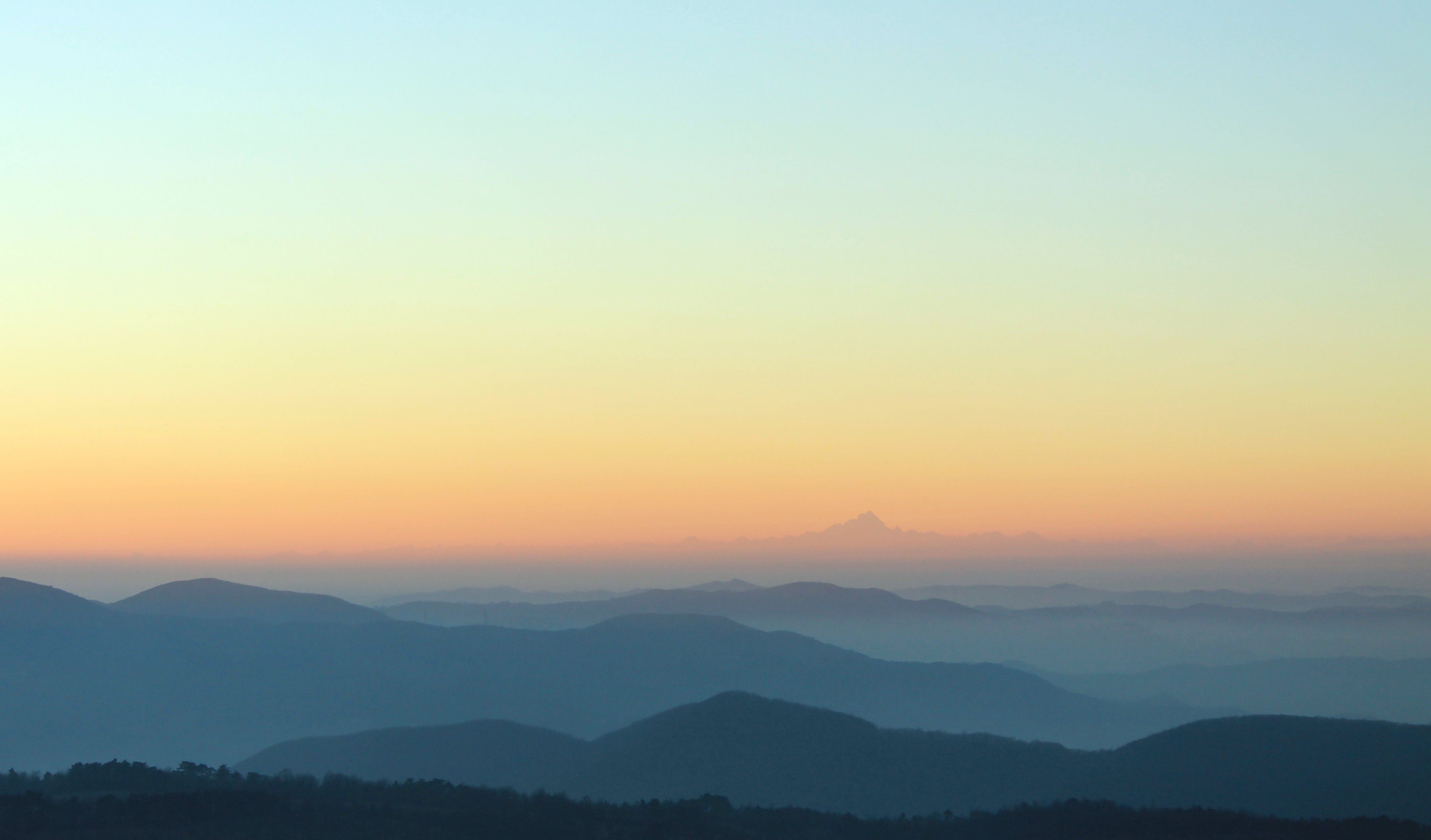 Sunset from Piani di Praglia, in the Province of Genoa. From here you can see Monviso Mount which is approximately 130 Km far.